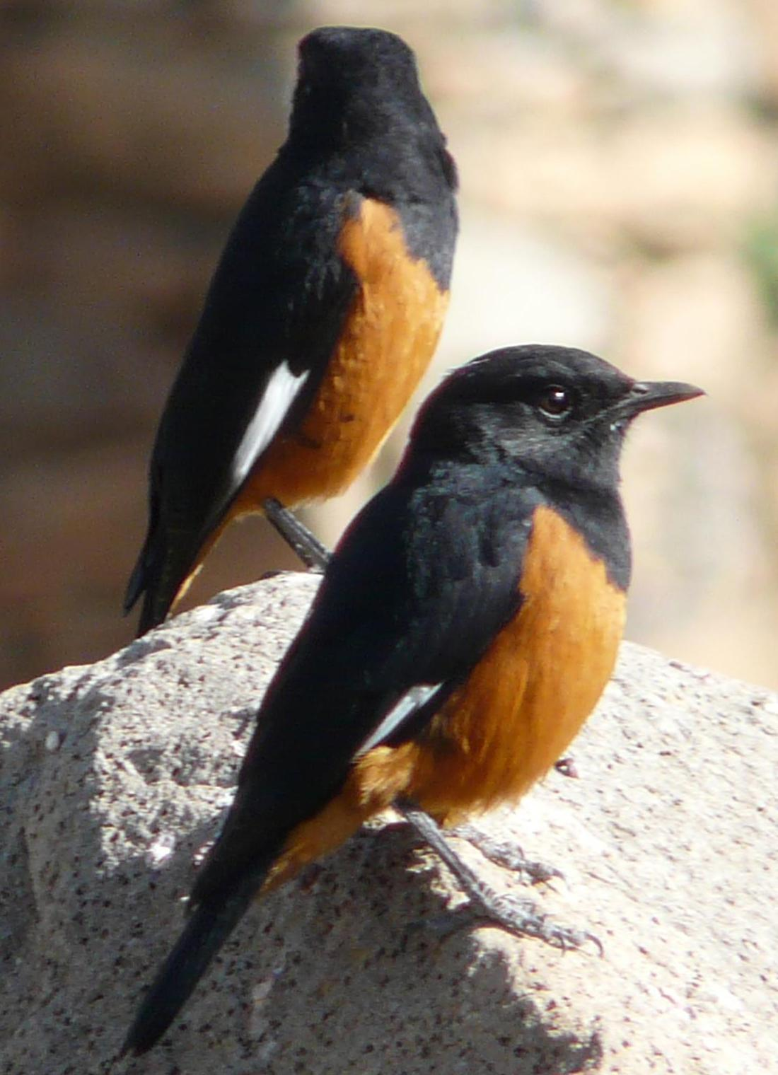 Two male White-winged Cliff-chats in Ethiopia.